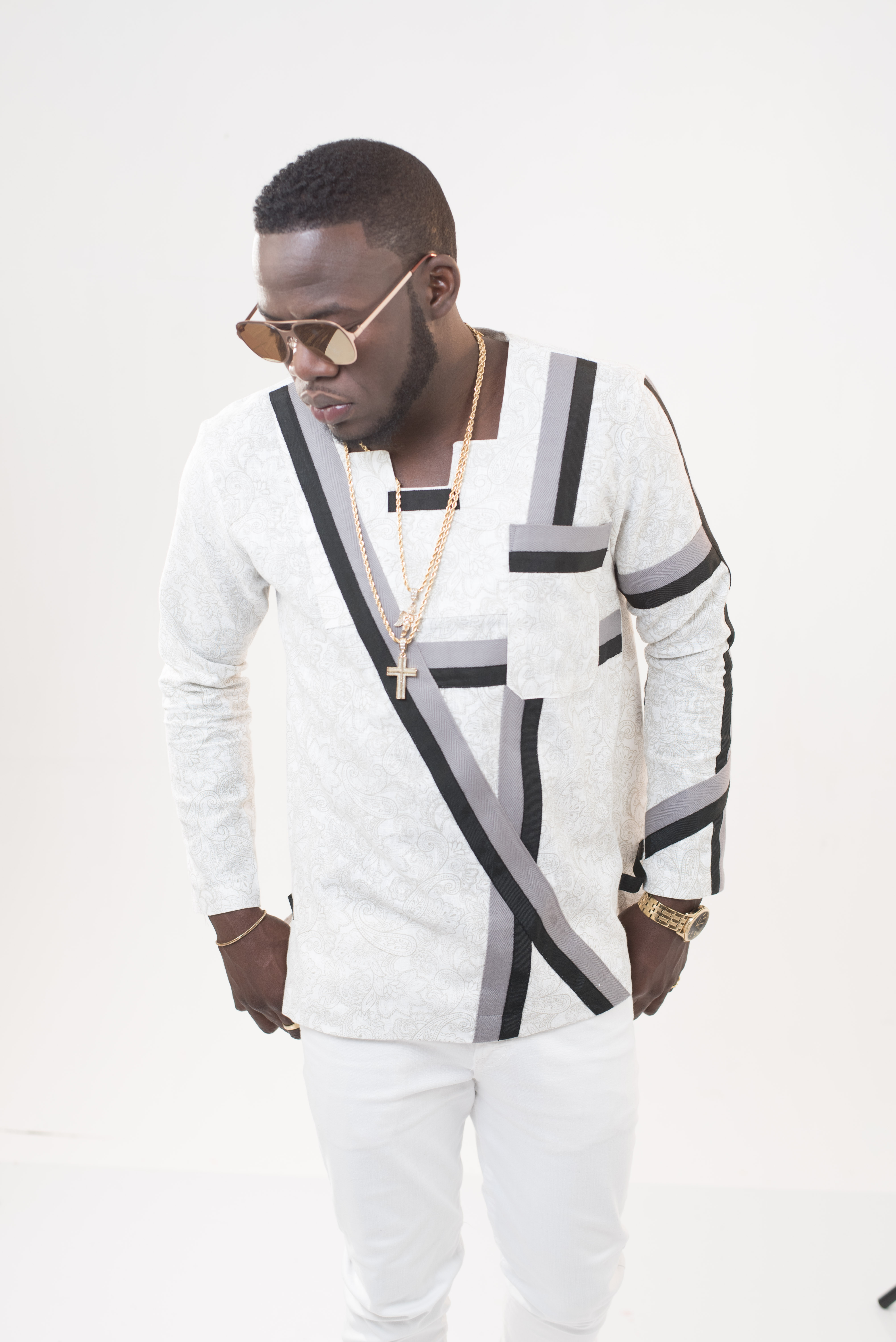 Singer song-writer EA, 2017